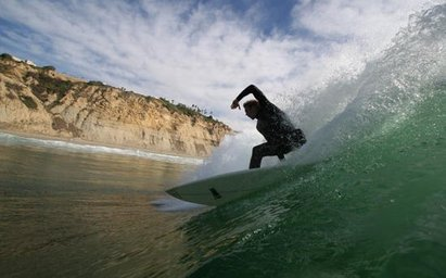 This photo was taken by Bryan Gener, for any usage.